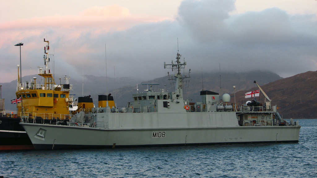 The Sandown class minehunter HMS Grimsby of the Royal Navy in Loch Alsh, 2008.